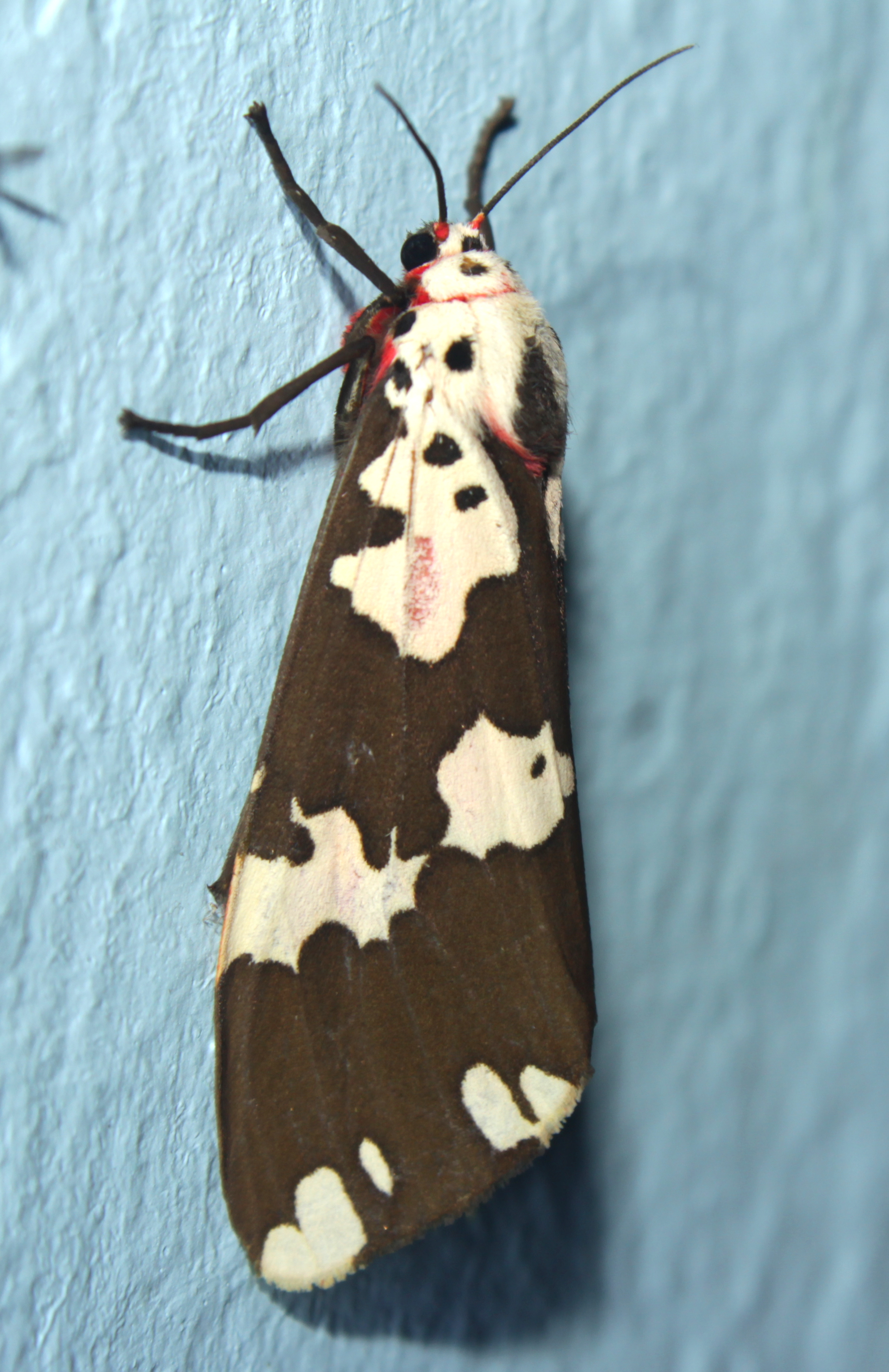 A Pangora matherana moth. Photographed near Kanjirappally.